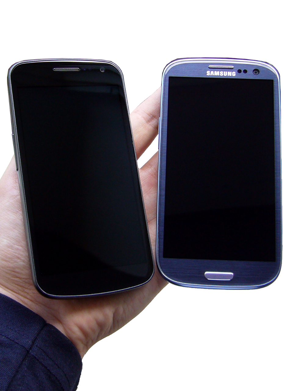 Galaxy Nexus and Galaxy S III smartphones side by side.